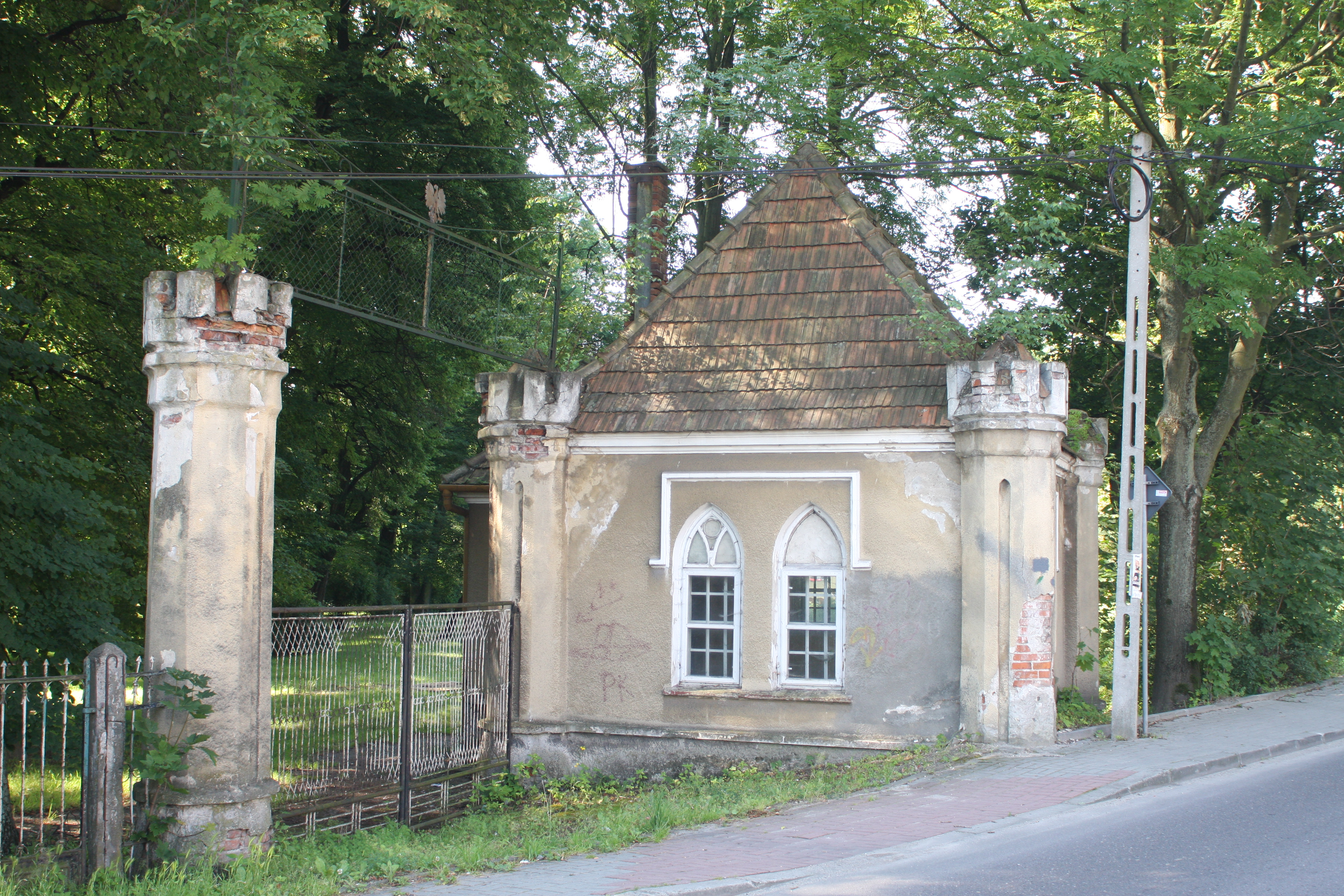 Guardhouse, Dąmbski Palace in Wojnicz